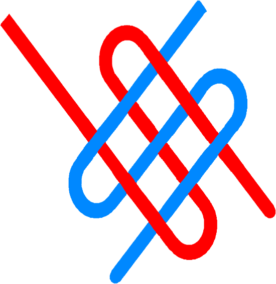 Friendship knot; also known as Chinese cross knot, Japanese crown knot, success knot, buckaroo knot or square knot.